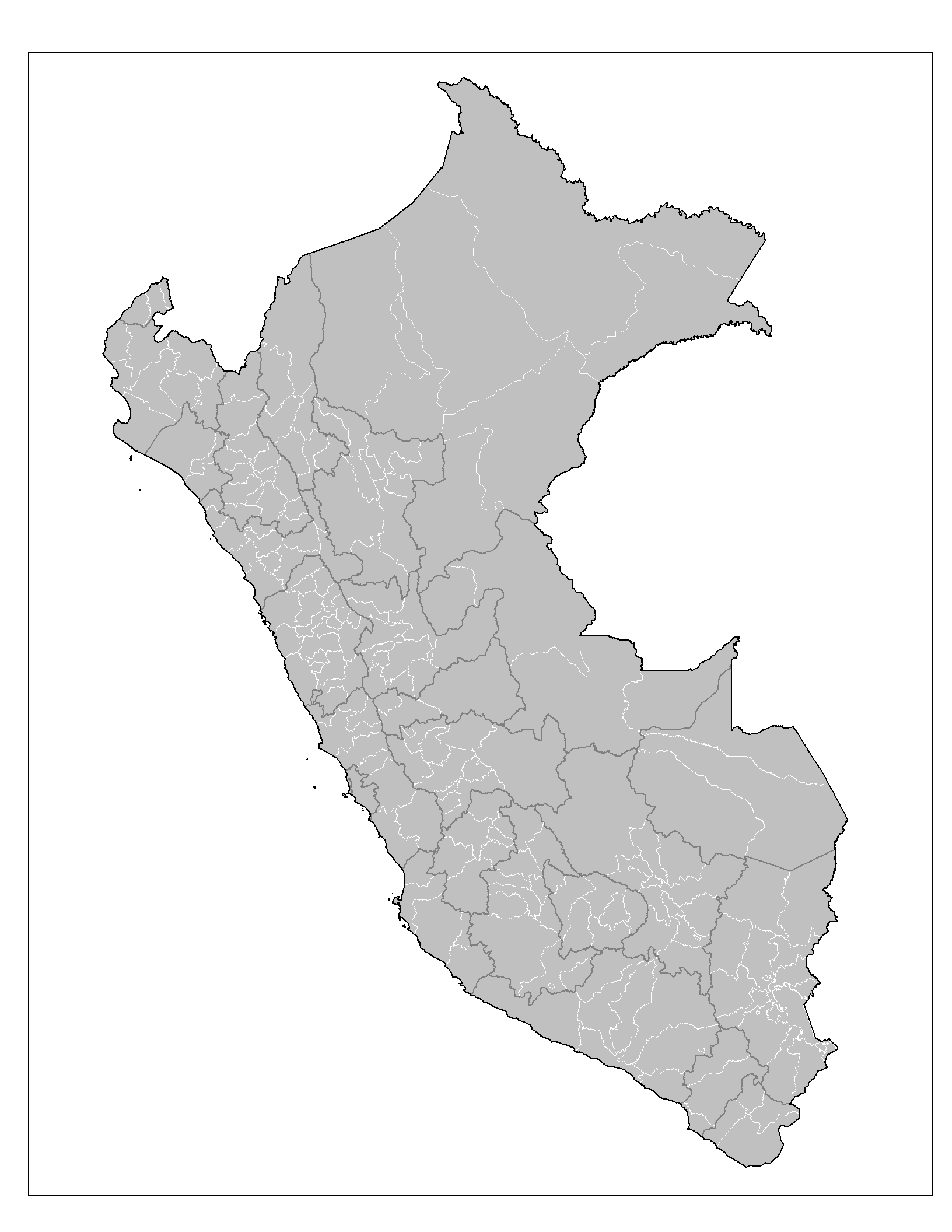 This map has been uploaded by Electionworld from to enable the Wikimedia Atlas of the World . Original uploader to was Rarelibra, known as Rarelibra at . Electionworld is not the creator of this map. Licensing information is below. Map of the provinces of Peru. Created by Rarelibra 16:02, 30 August 2006 (UTC) for public domain use. Created using MapInfo Professional v8.5 and various mapping resources.